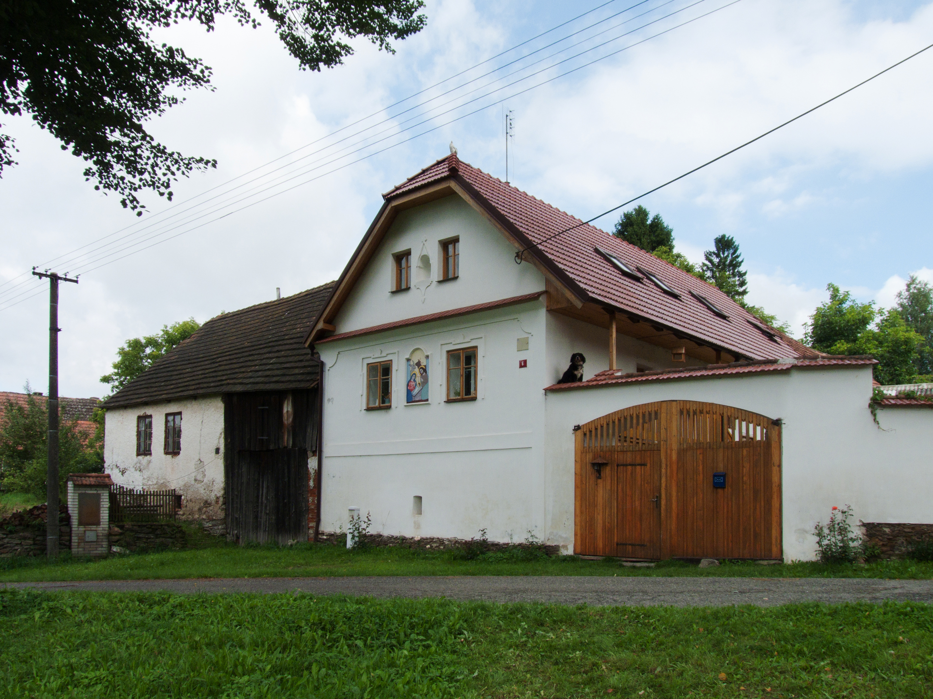 House No 6 in the village of Horní Hrachovice, part of Dolní Hrachovice, Tábor District, Czech Republic